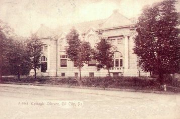 Oil City, Venango County, Pennsylvania library funded by Carnegie c. 1900. This is a postcard c. 1906. A different postcard with the same image (but colorized) is shown at and that postcard was mailed in 1906.